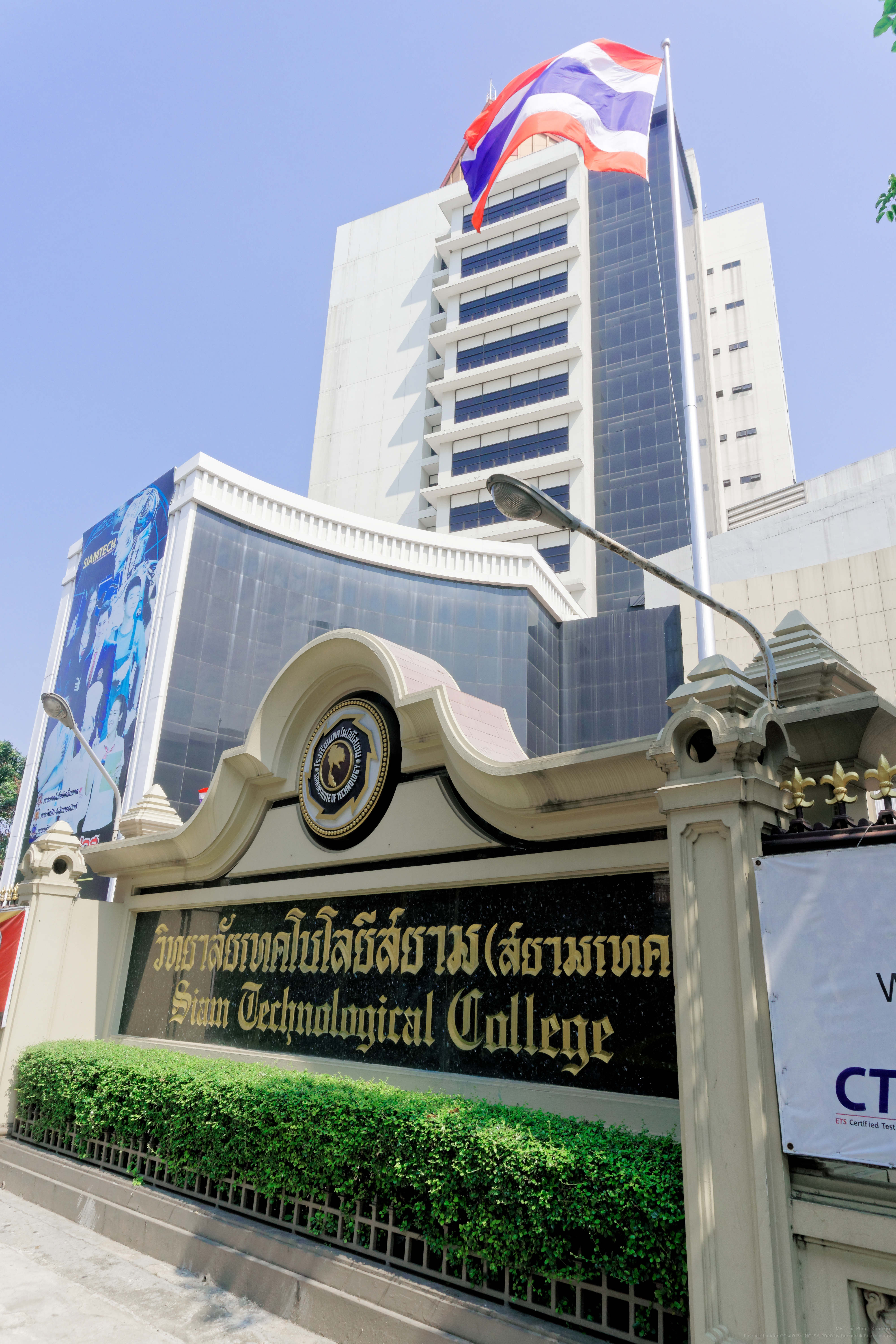 MRT Charan 13 – Siam Technological college